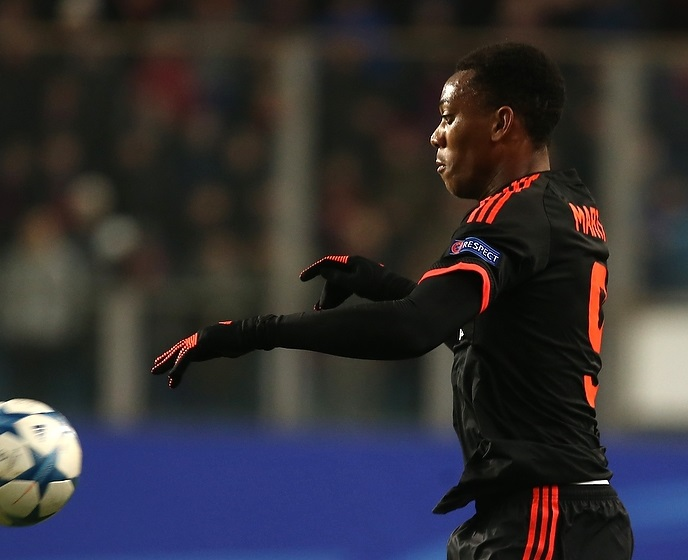 Anthony Martial of Manchester United during UEFA Champions League match against PFC CSKA Moscow